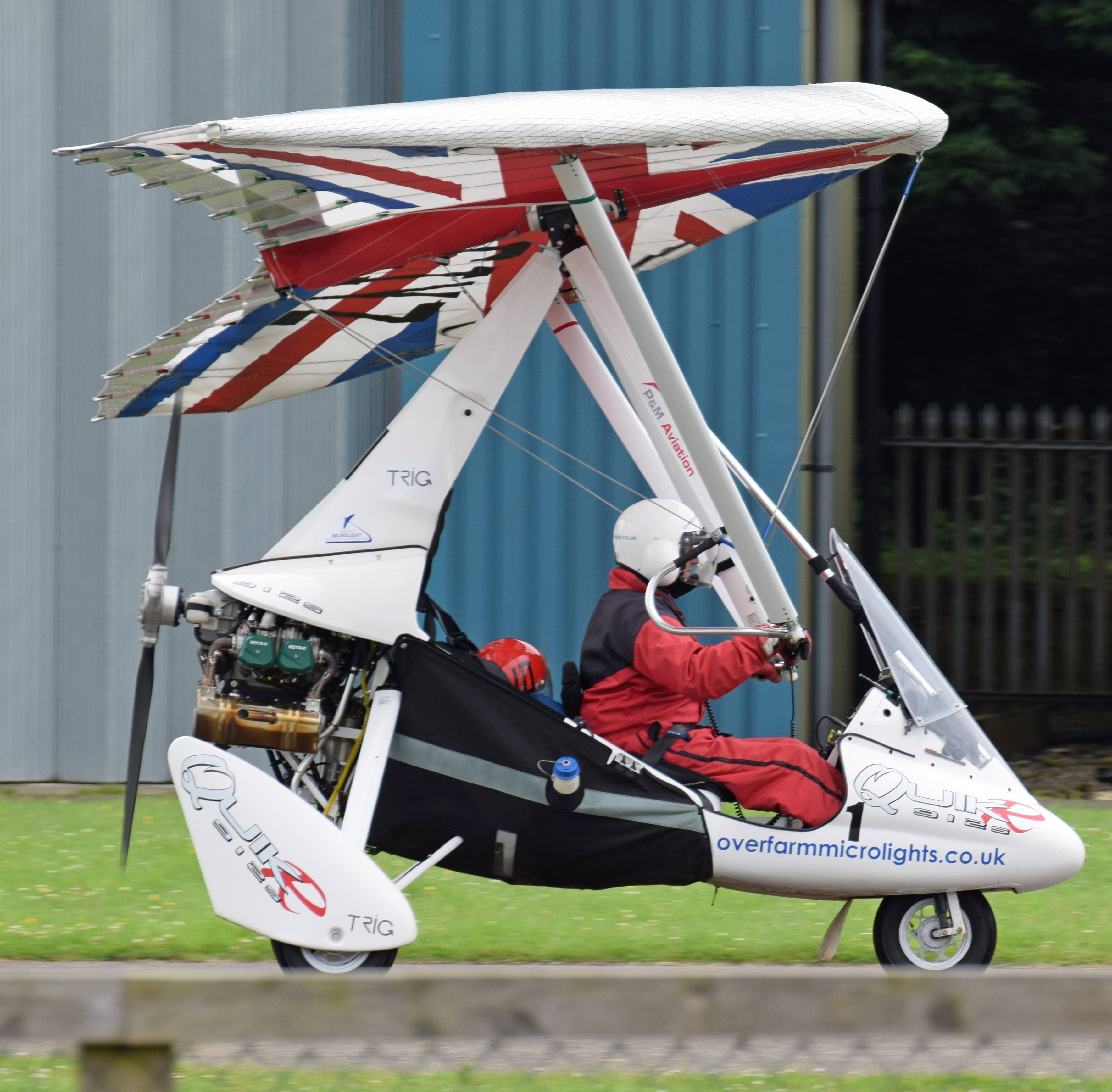 P&M Aviation Pegasus Quik at Cotswold Airport, Gloucestershire, England. UK registration G-CIYZ. Date of build 2015.